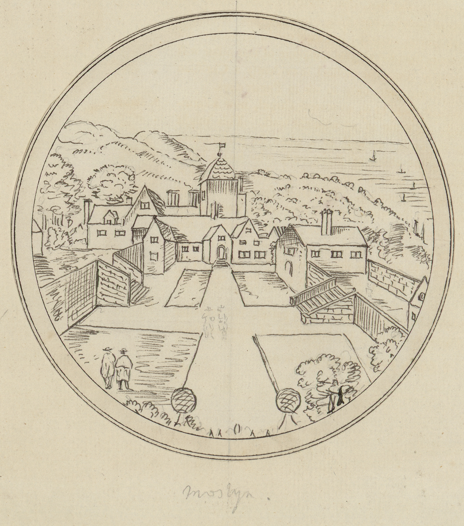 An image from a set of 8 extra-illustrated volumes of A tour in Wales by Thomas Pennant (1726-1798) that chronicle the three journeys he made through Wales between 1773 and 1776. These volumes are unique because they were compiled for Pennant's own library at Downing. This edition was produced in 1781. The volumes include a number of original drawings by Moses Griffiths, Ingleby and other well known artists of the period. Thomas Pennant (1726-1798)